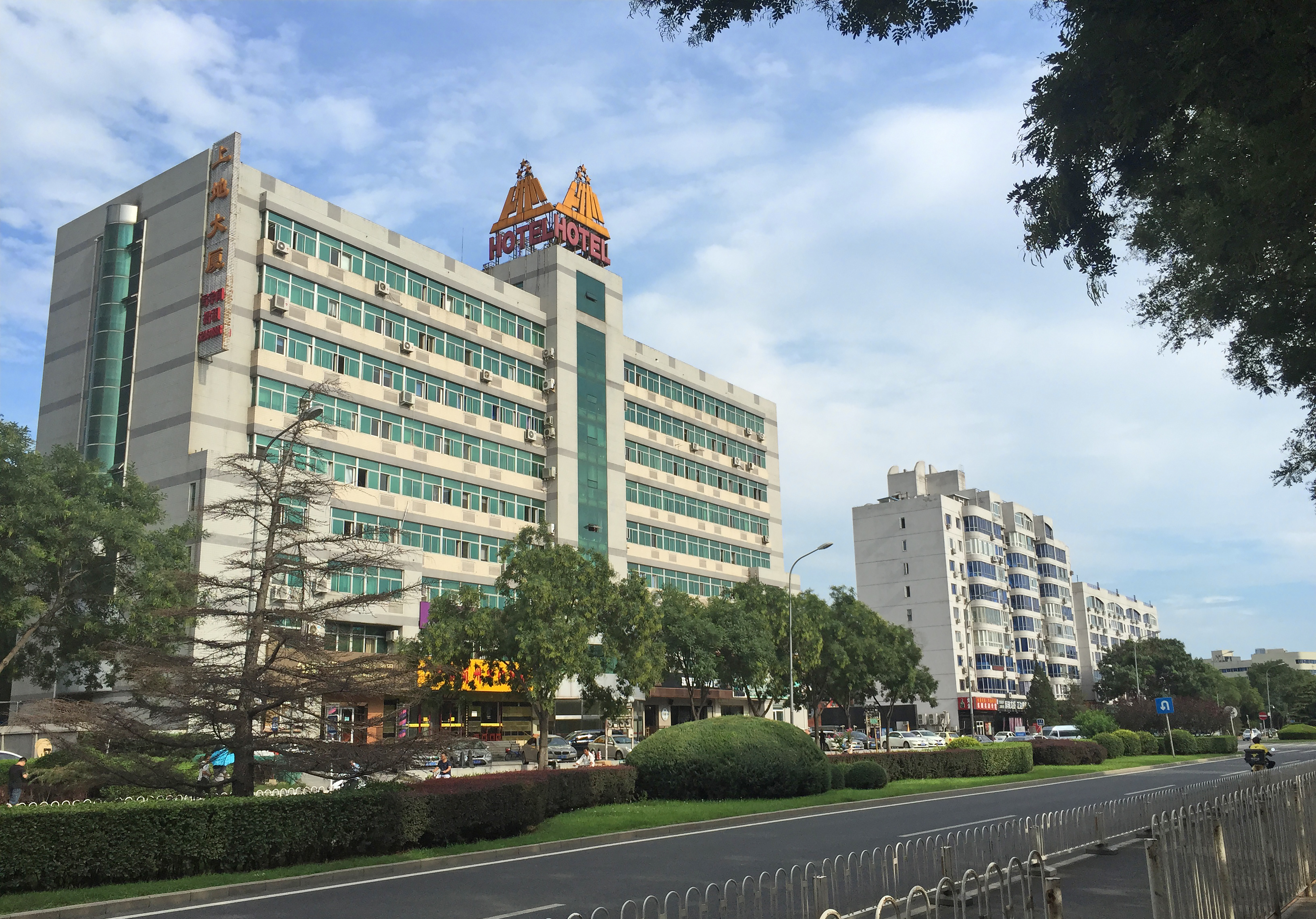 Shangdi, God's land or Uppland.